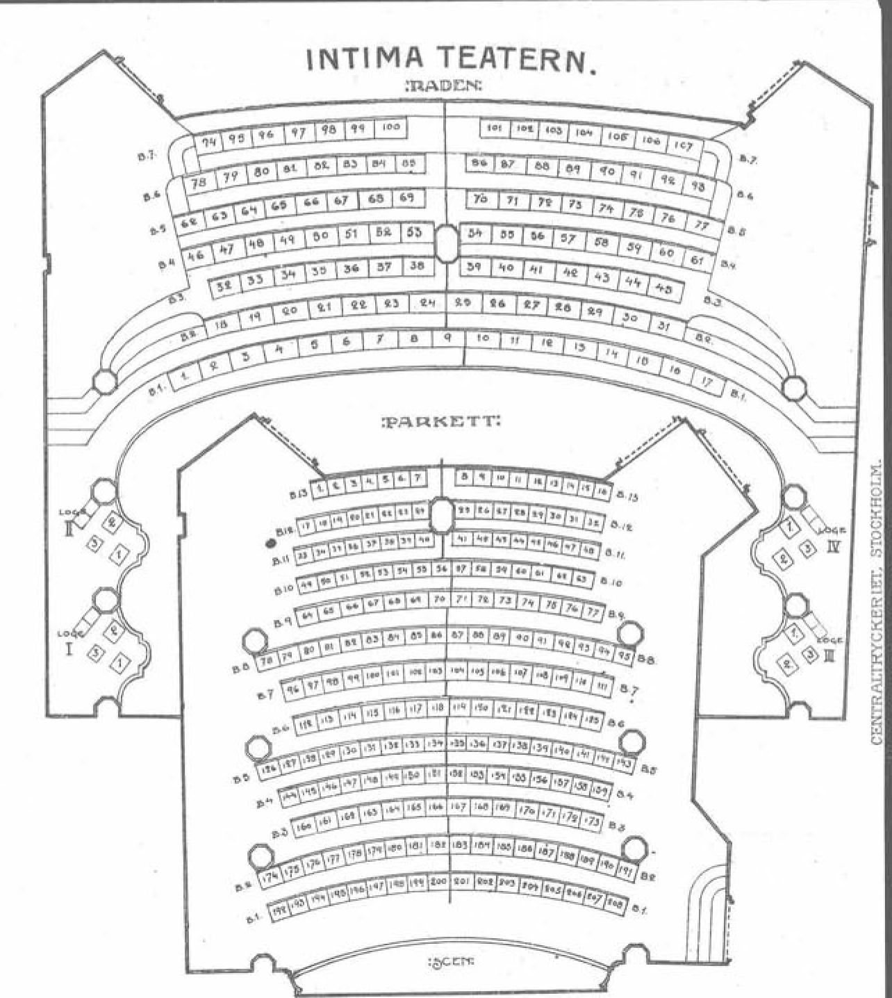 Seating plan of Strindbergs Intima Teater, Stockholm, Sweden.